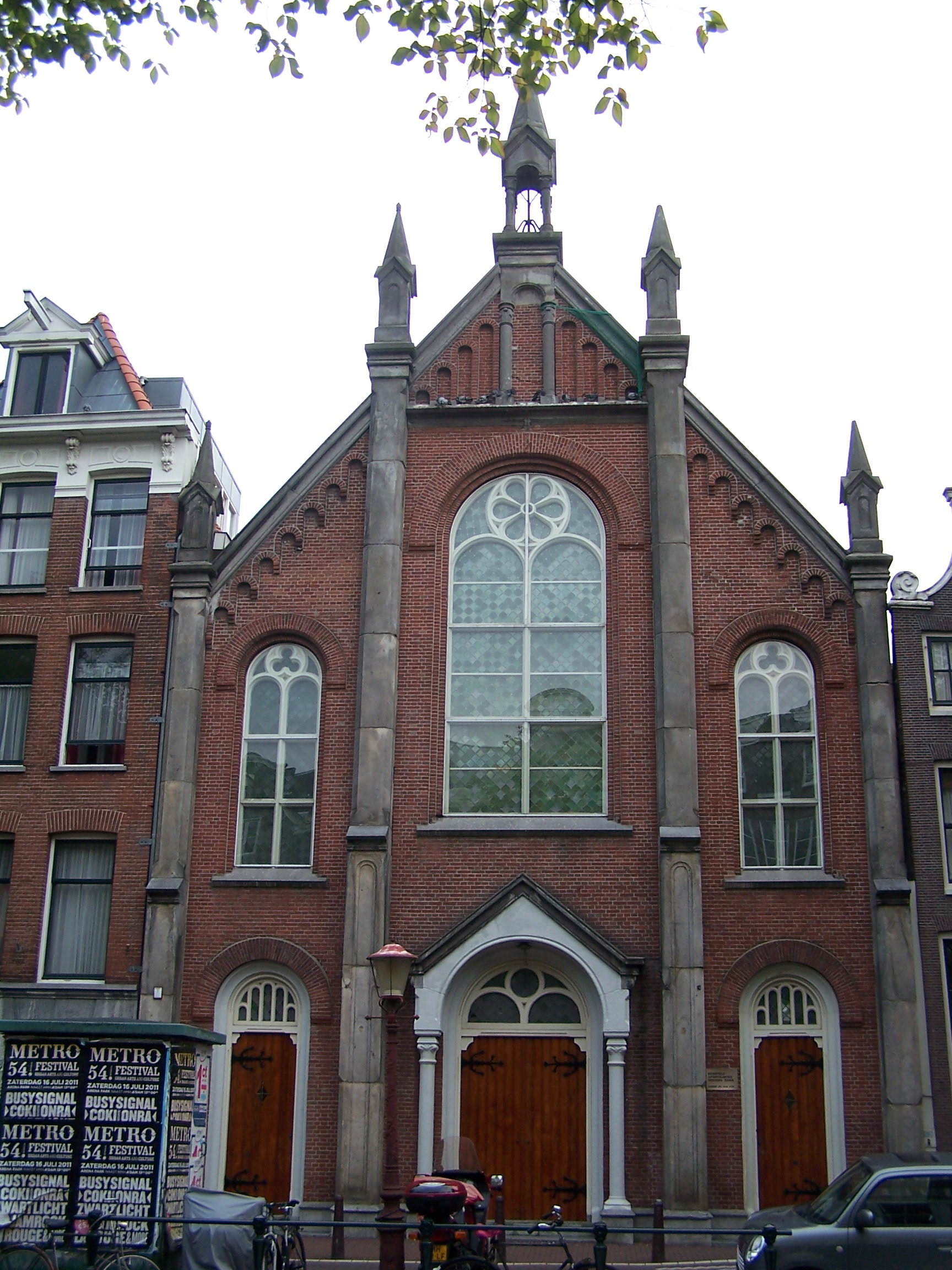 Bloemgracht 98 (Hersteld Apostolische Zendingkerk - Stam Juda)